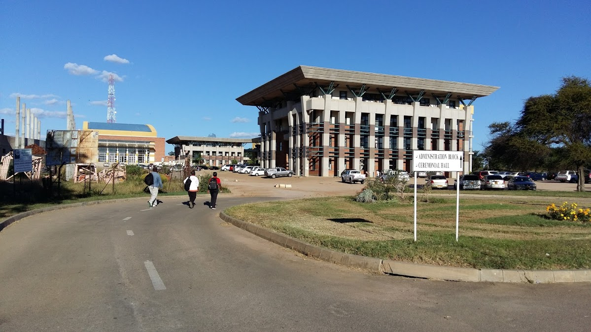 National university of science and technology administration building